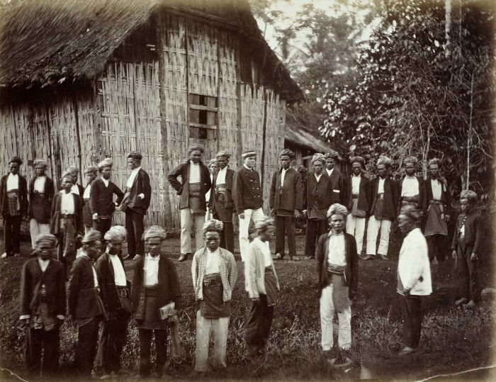 A group of local rulers